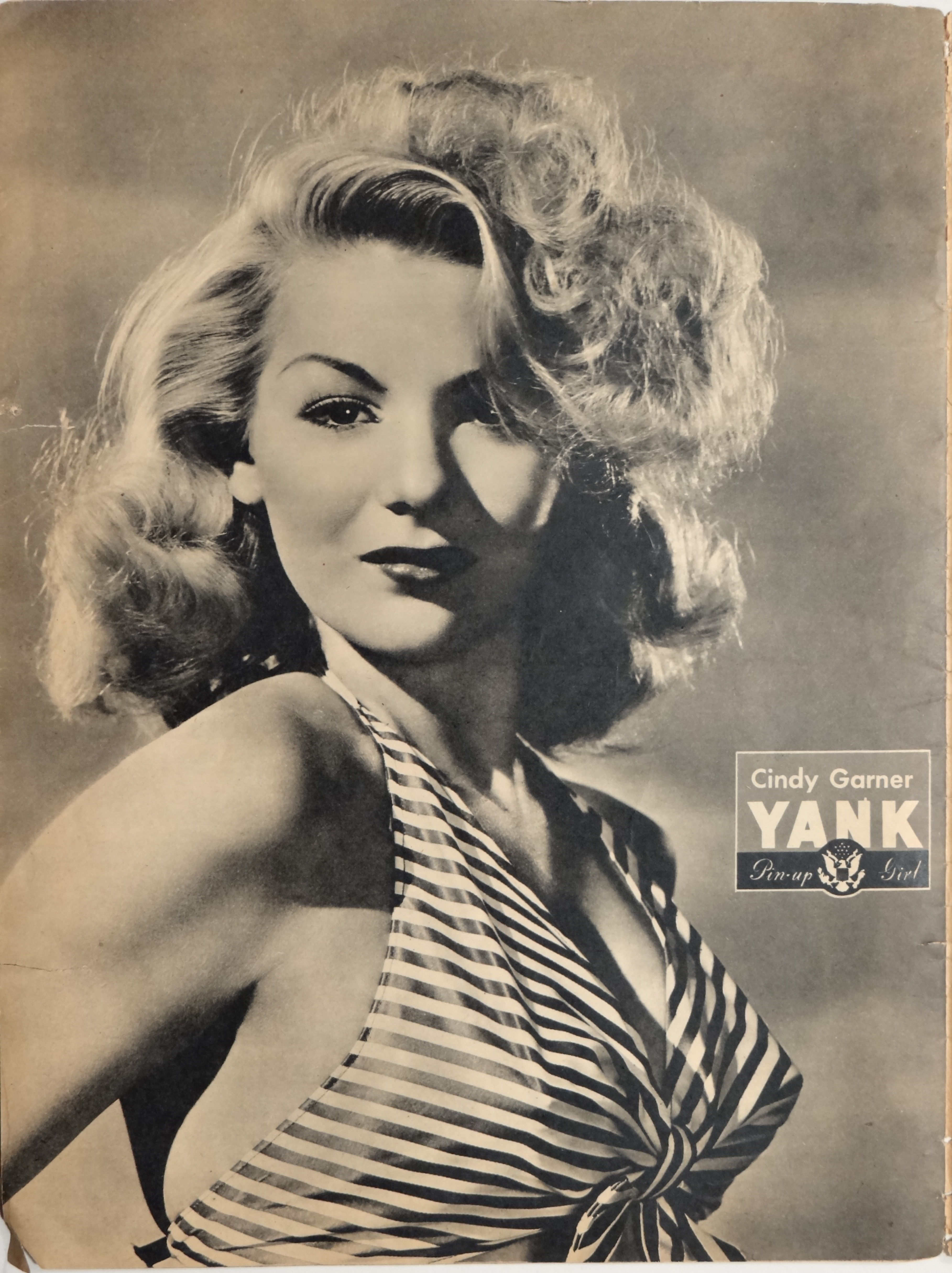 Cindy Garner pin-up from Yank, The Army Weekly, April 1945